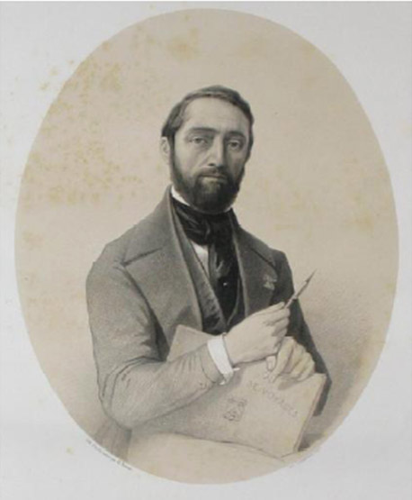 French painter Adolphe d'Hastrel (1805-1874)